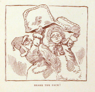 An engraved illustration of Santa Claus and his wife from an 1889 edition of the poem "Goody Santa Claus on a Sleigh-Ride"